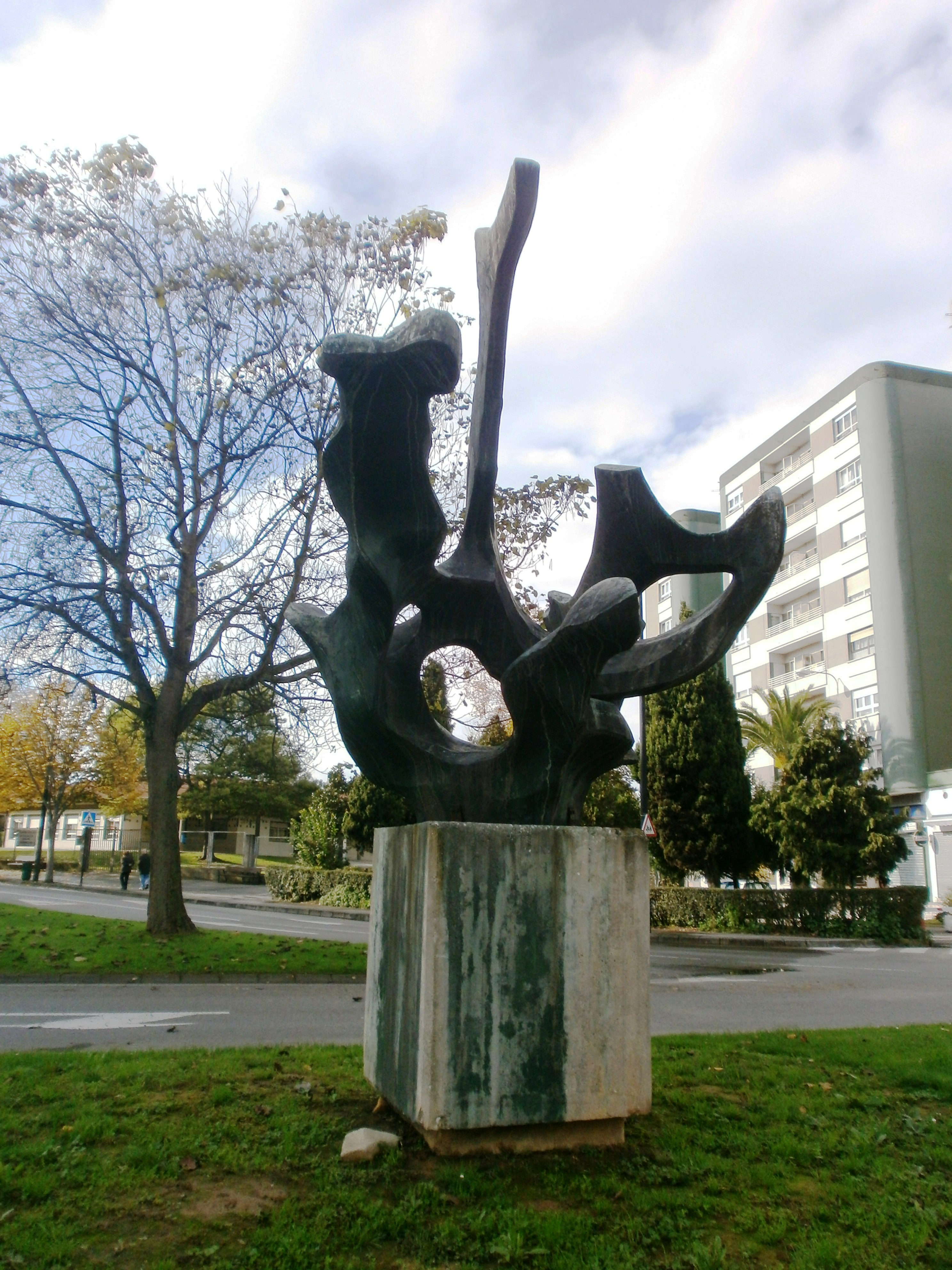 Esculturas de Oviedo alaire libre